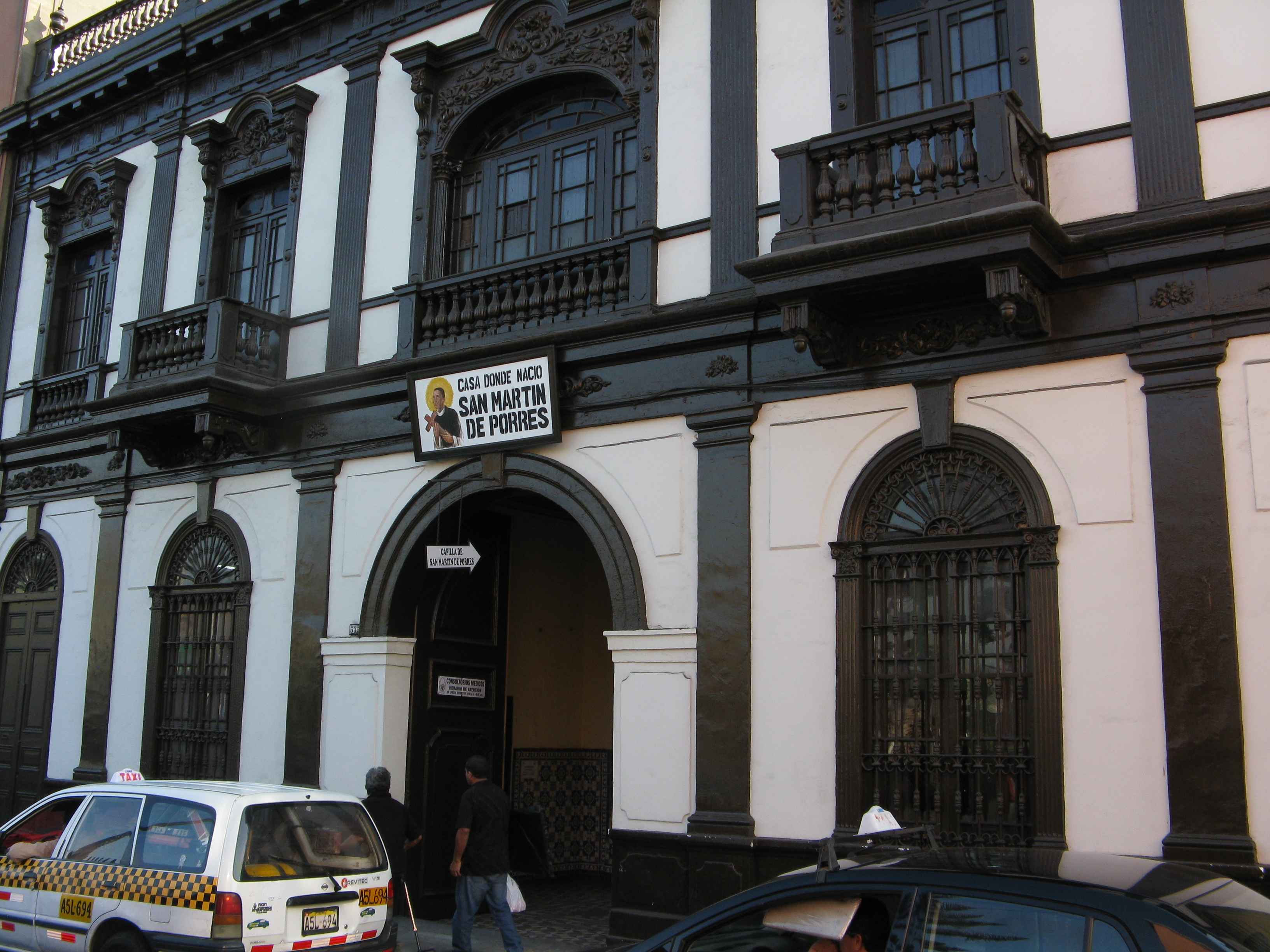 House where Saint Marin de Porres was born in Lima, Peru (Avenida Tacna)